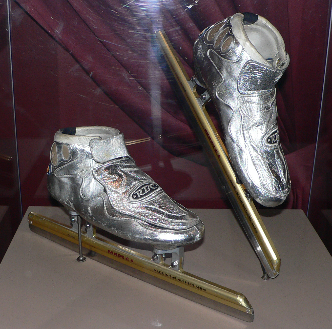 The skates worn by Apolo Ohno at the 2002 winter Olympics.